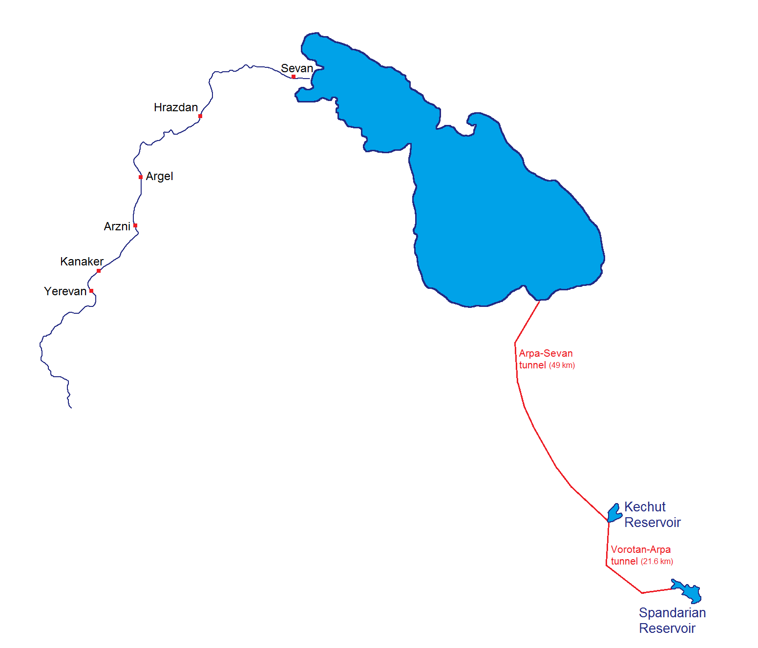 Lake Sevan, its tunnels, the Hrazdan Sevan cascade used this map as a base